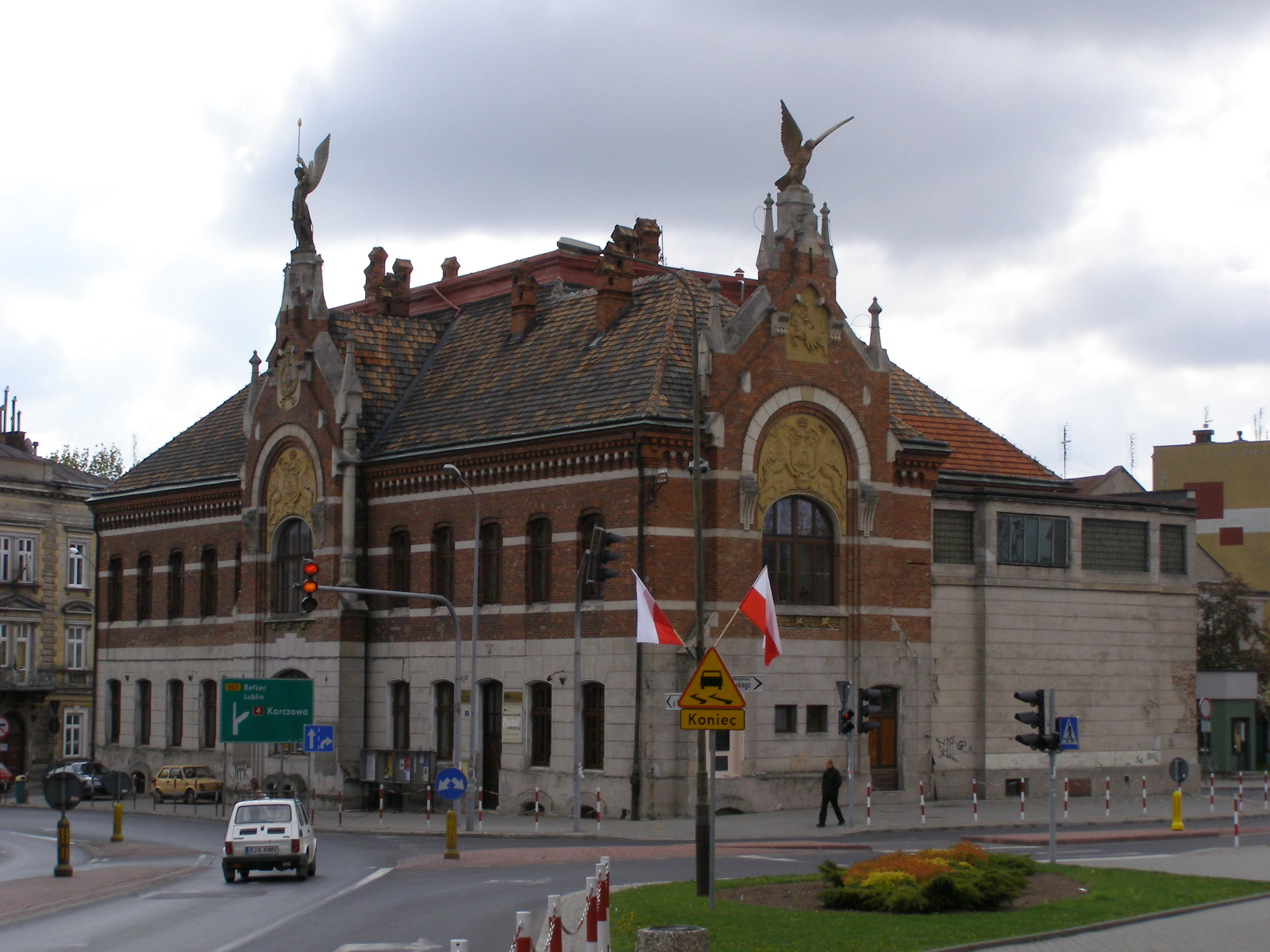 Jarosław - building of the Gymnastic Society "Sokół" ("Falcon")